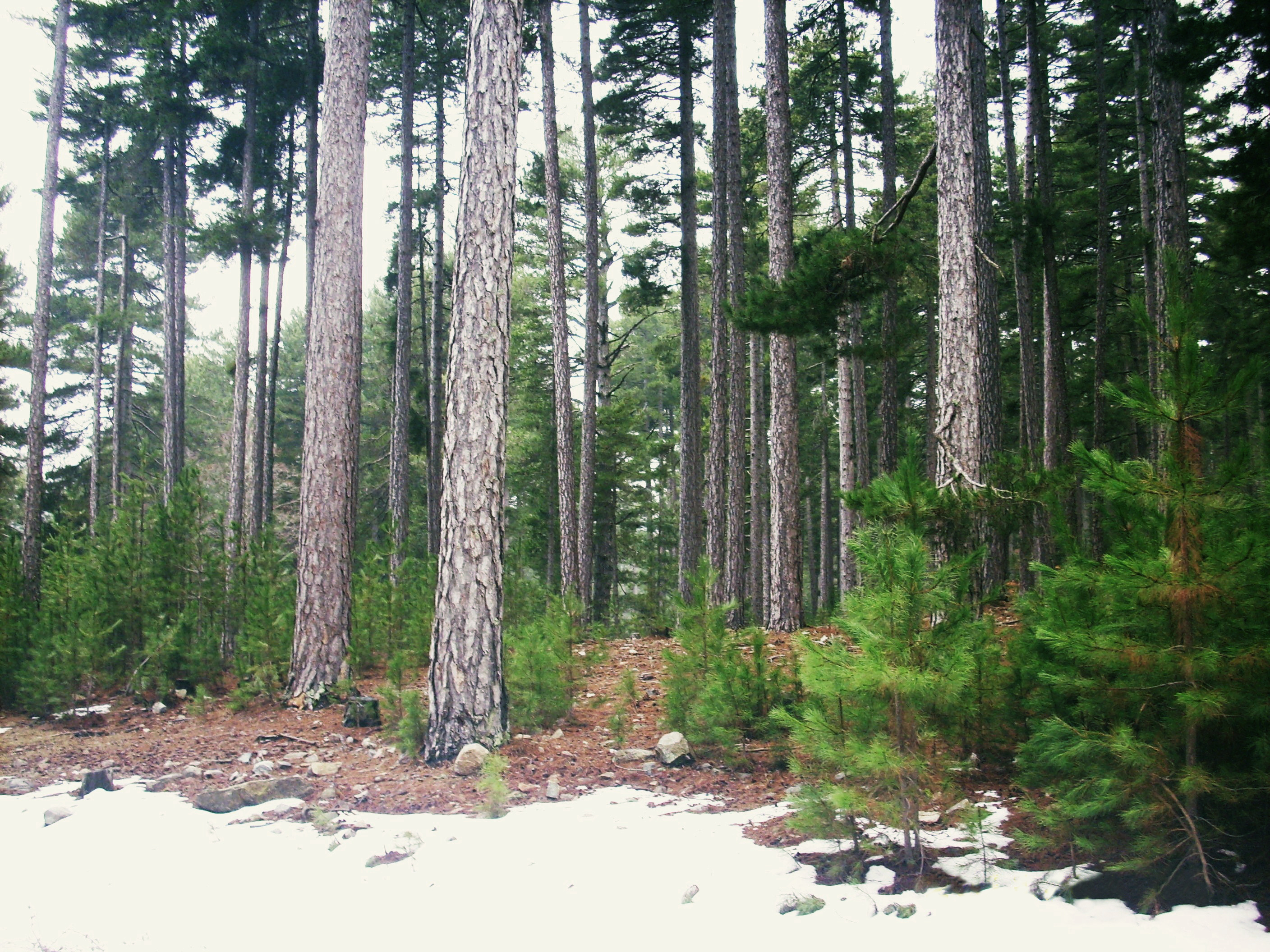 Corsica, Pinus nigra var. corsicana forest of Monte Cinto